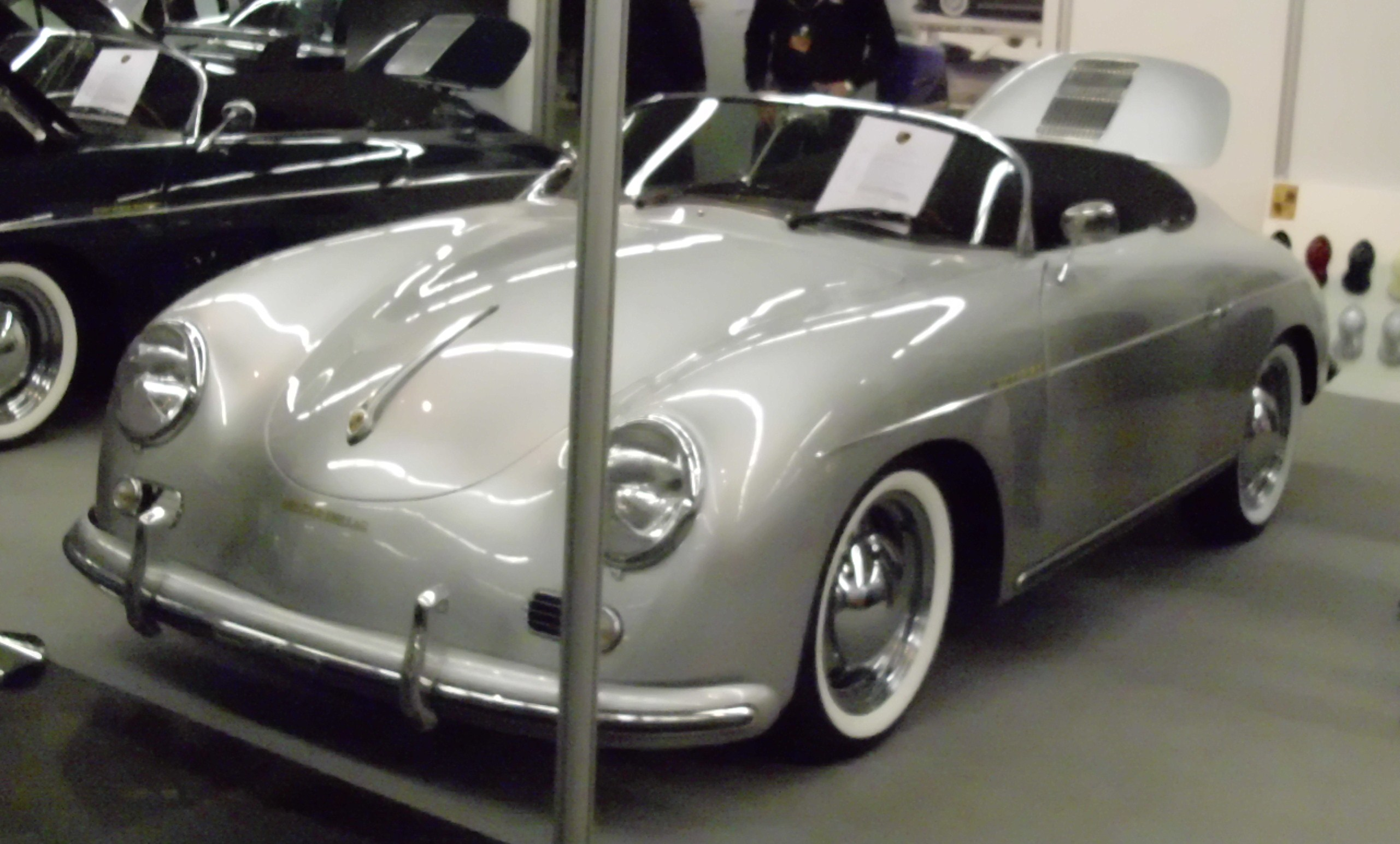 Speedster made by Replicar Hellas (RCH) shown at Techno Classica Essen, 2013